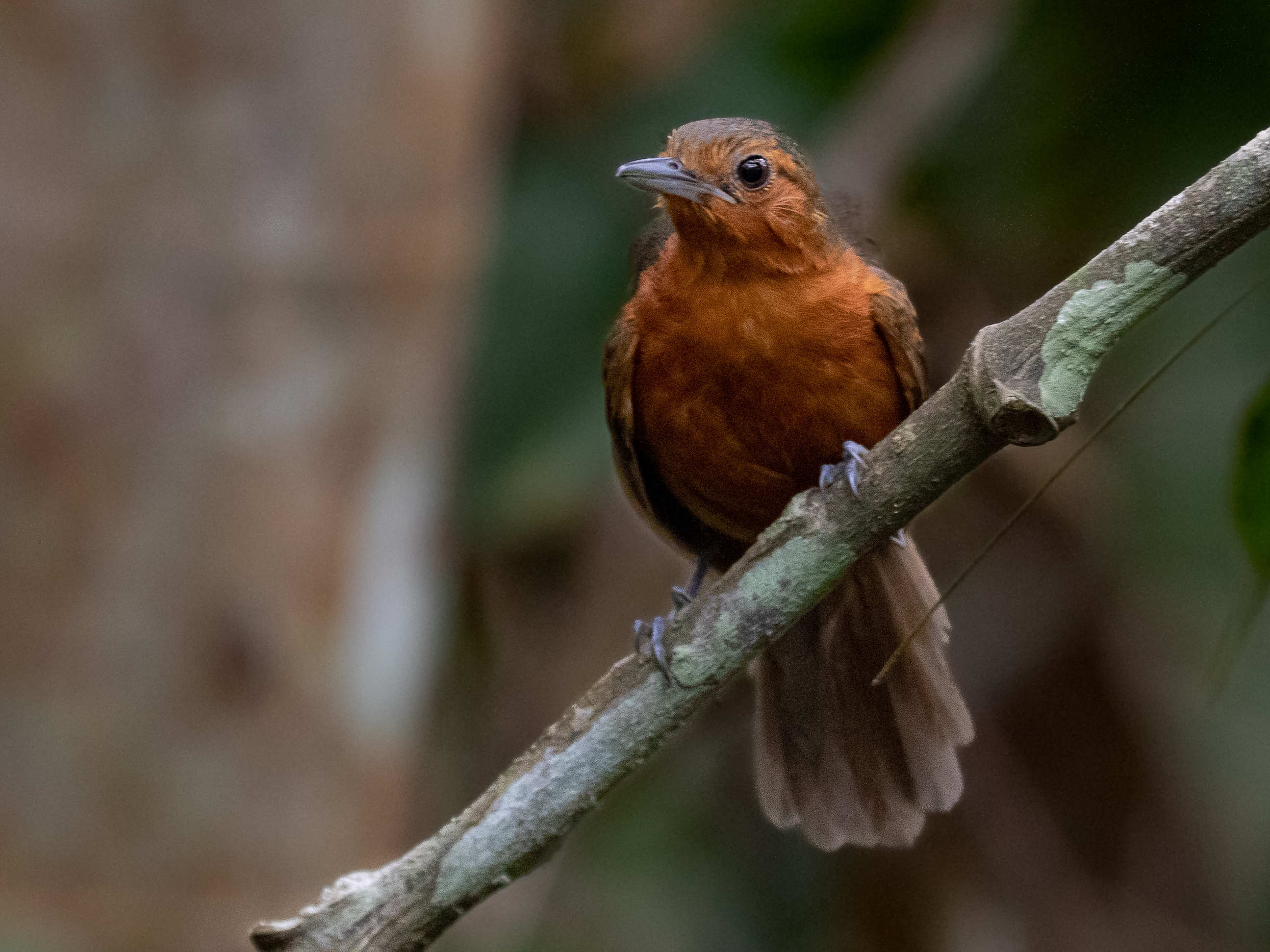 Black antbird (female), Careiro, Amazonas, Brazil